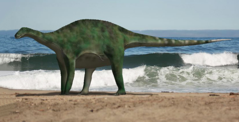 Brachytrachelopan mesai from the Late Jurassic of Argentina. Digital.